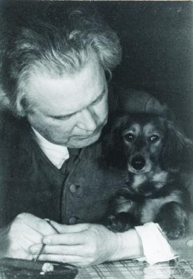 Mathematician Gustav Herglotz Annotation: „und Steffi“